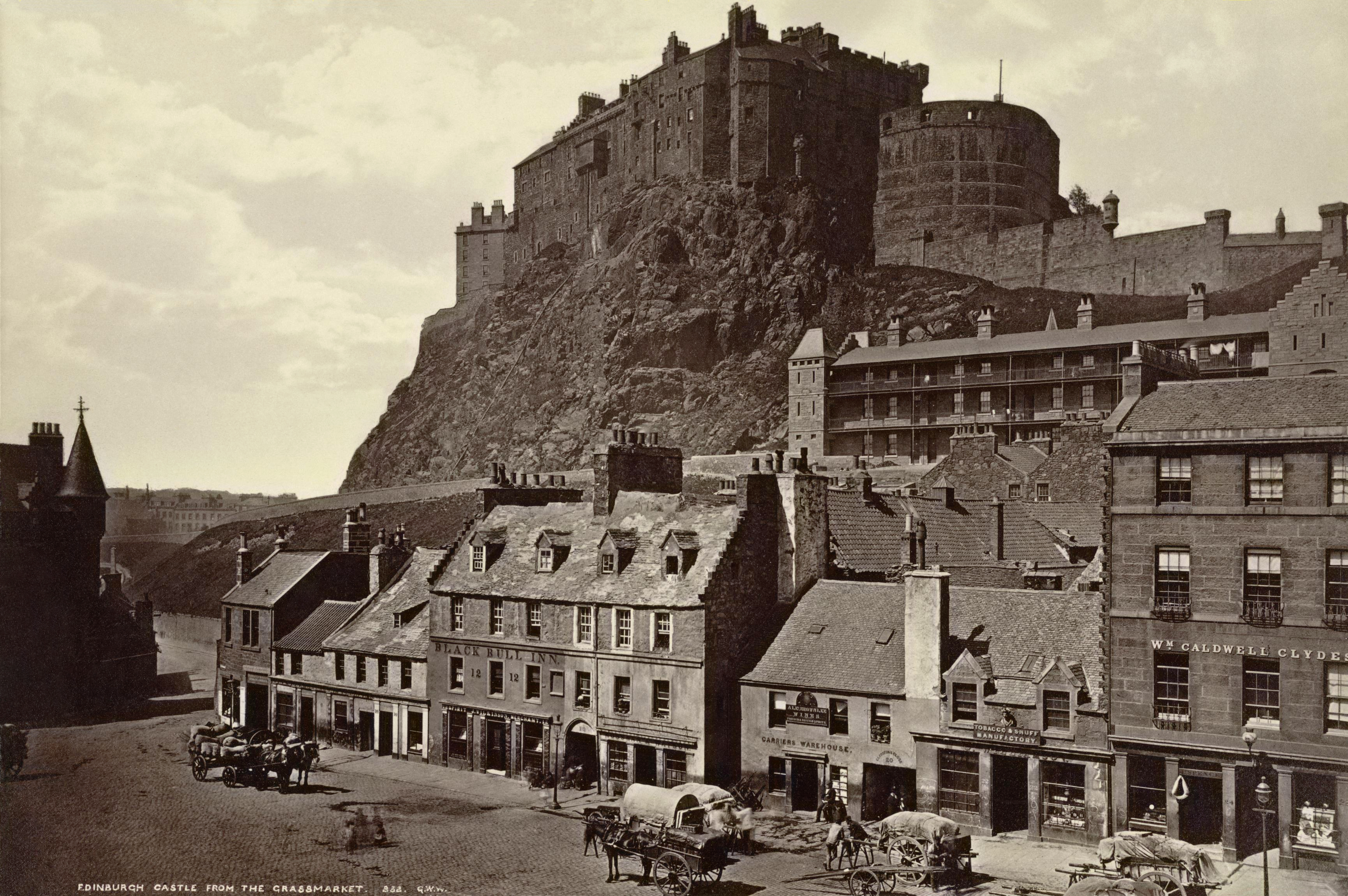 Collection: A. D. White Architectural Photographs, Cornell University Library Accession Number: 15/5/3090.01247 Title: Edinburgh Castle from the Grass Market Photographer: George Washington Wilson (Scottish, 1823-1893) Building Date: ca. 1500-ca. 1599 Photograph date: ca. 1865-ca. 1885 Location: Europe: United Kingdom; Edinburgh Materials: albumen print Image: 7 5/8 x 11 1/2 in.; 19.3675 x 29.21 cm Provenance: Gift of Andrew Dickson White Persistent URI: [1] There are no known U.S. copyright restrictions on this image. The digital file is owned by the Cornell University Library which is making it freely available with the request that, when possible, the Library be credited as its source. We had some help with the geocoding from Web Services by Yahoo!